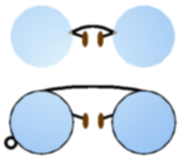 Pince-nez hard bridge and Oxford spectacles compared